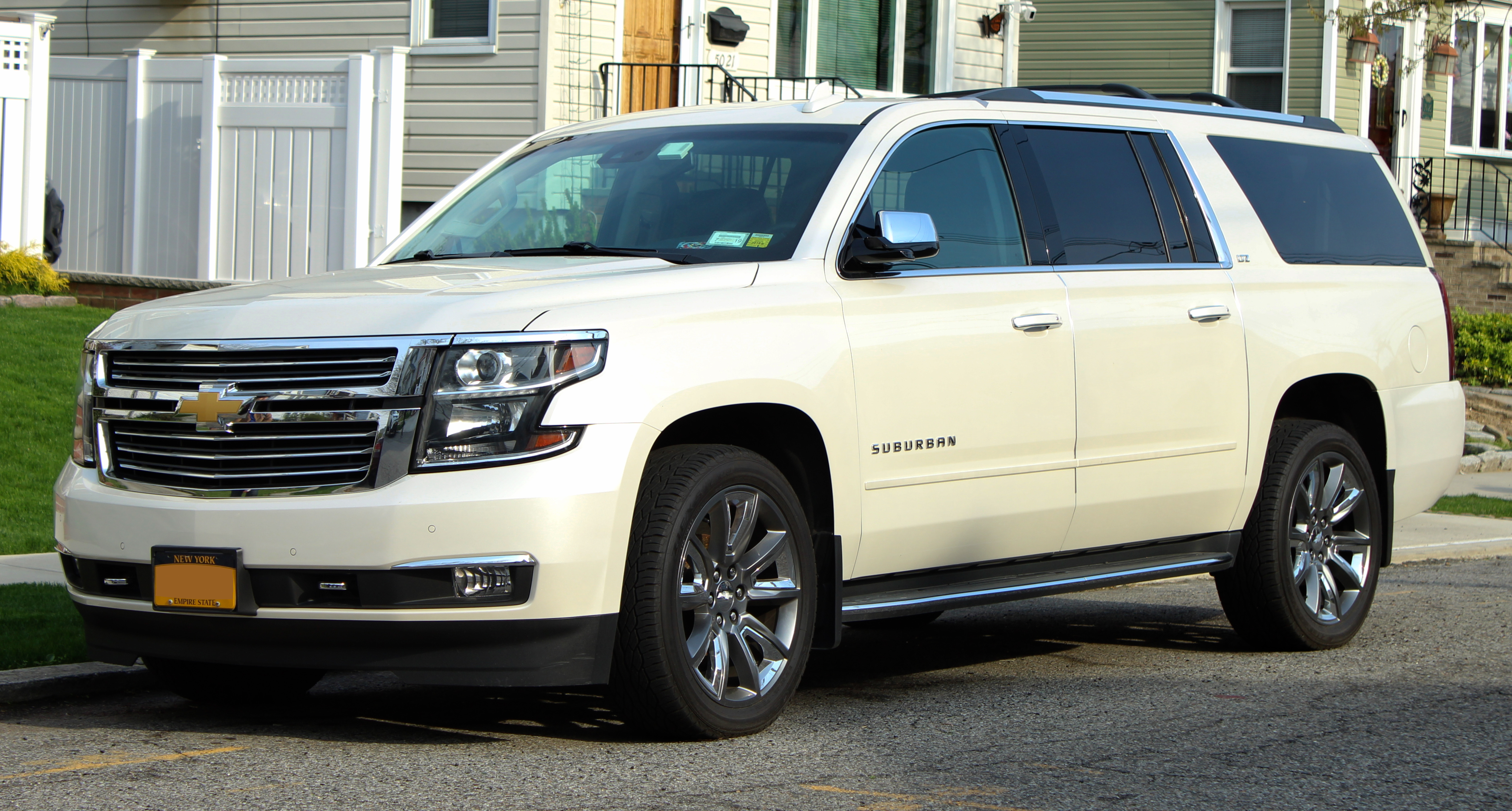 A 2015 Chevrolet Suburban photographed in Queens, New York, USA